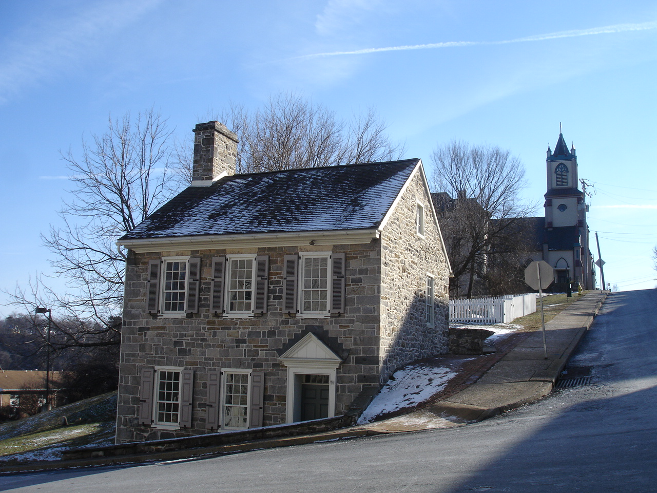 This is photo of the Jacob Nicholas House, a building listed on the National Register of Historic Places.